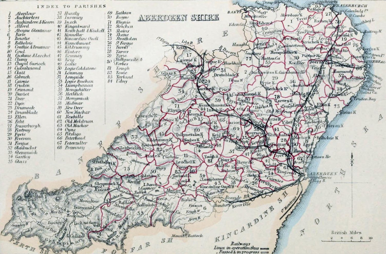 ABERDEENSHIRE Civil Parish map. The Imperial gazetteer of Scotland. Vol.I. by Rev. John Marius Wilson.